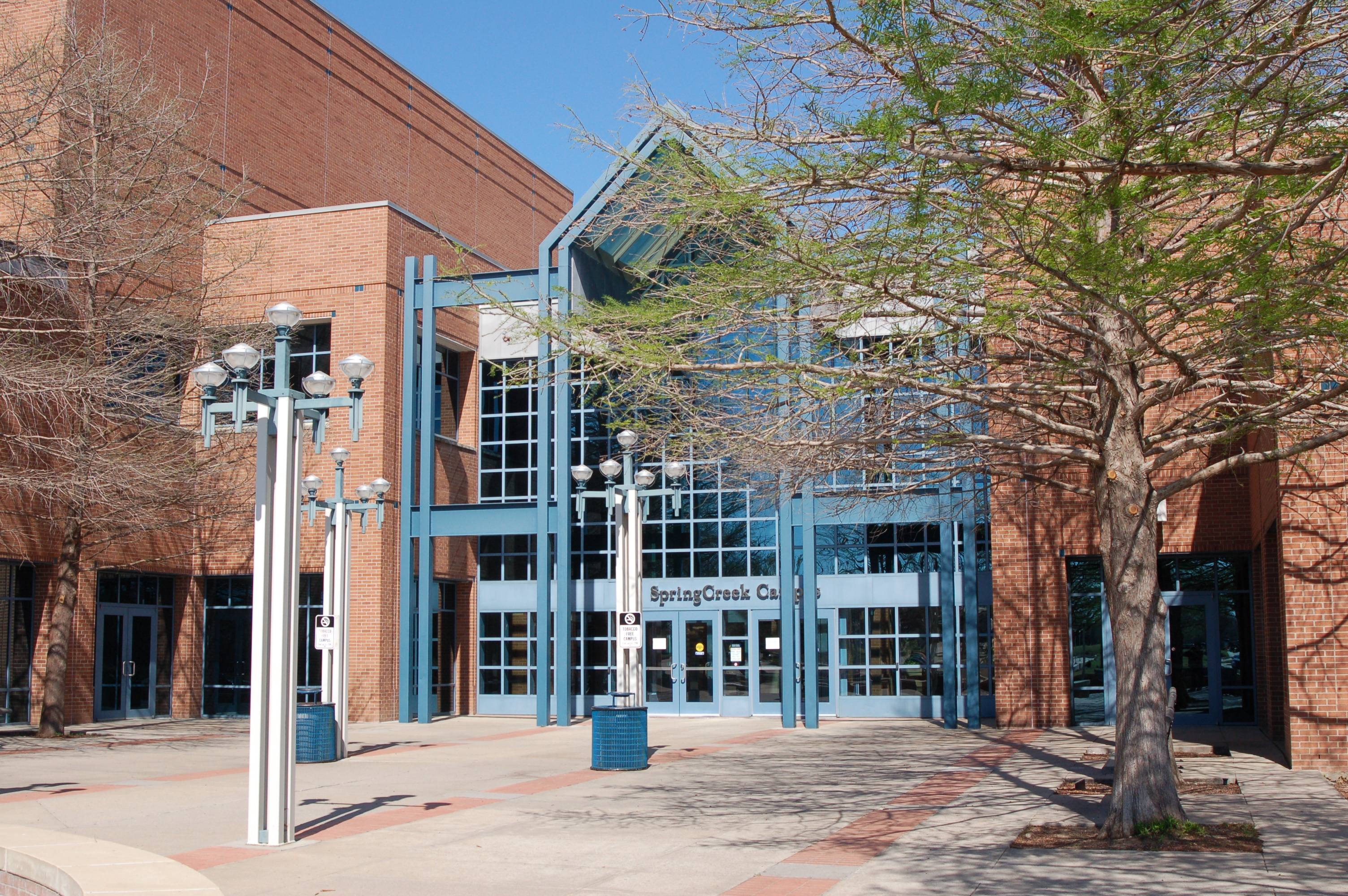 Collin College Spring Creek Campus